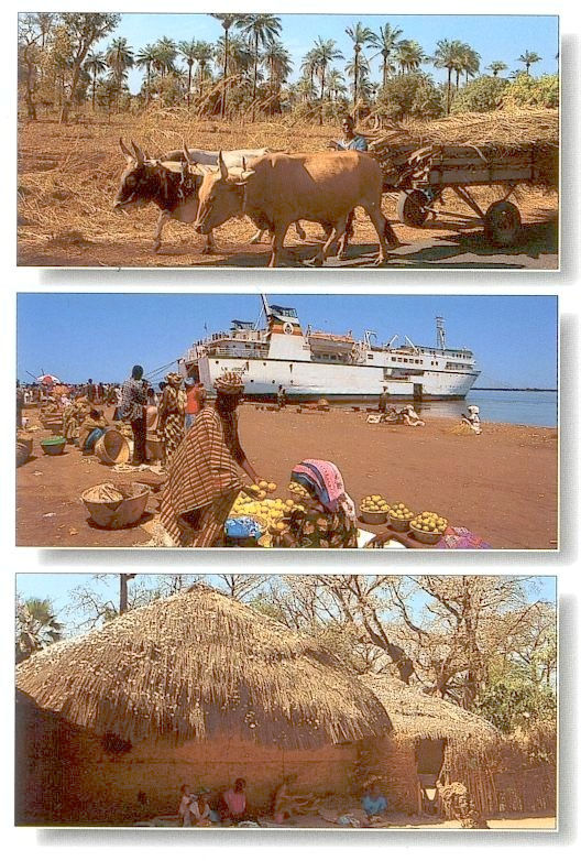 Cap skirring Photo Gallery, Senegal